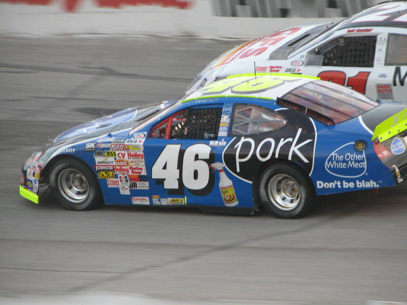 Frank Kimmel in his #46 National Pork Board Ford Fusion at Salem Speedway in 2006.